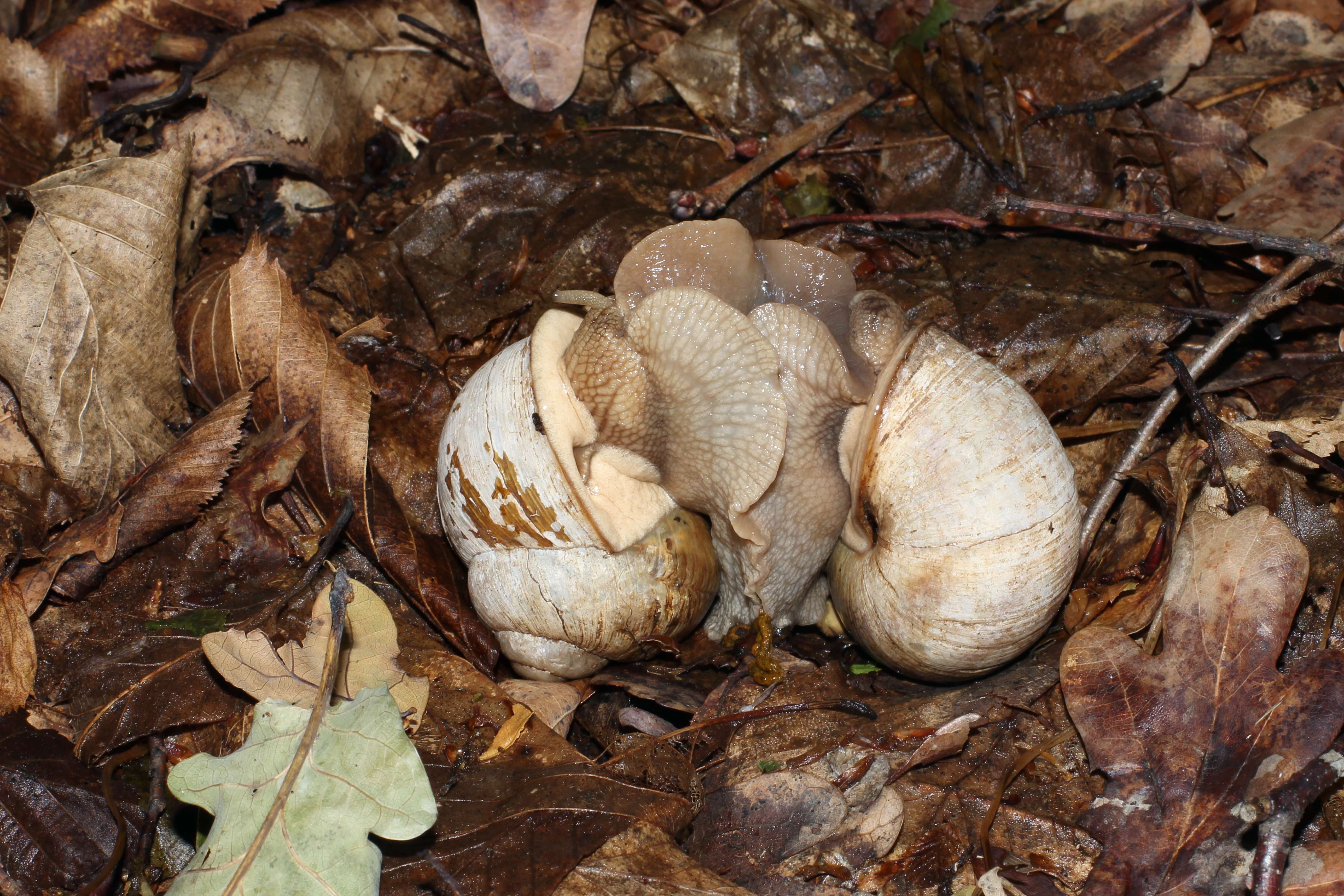 A pair of Burgundy snail (Helix pomatia) copulation